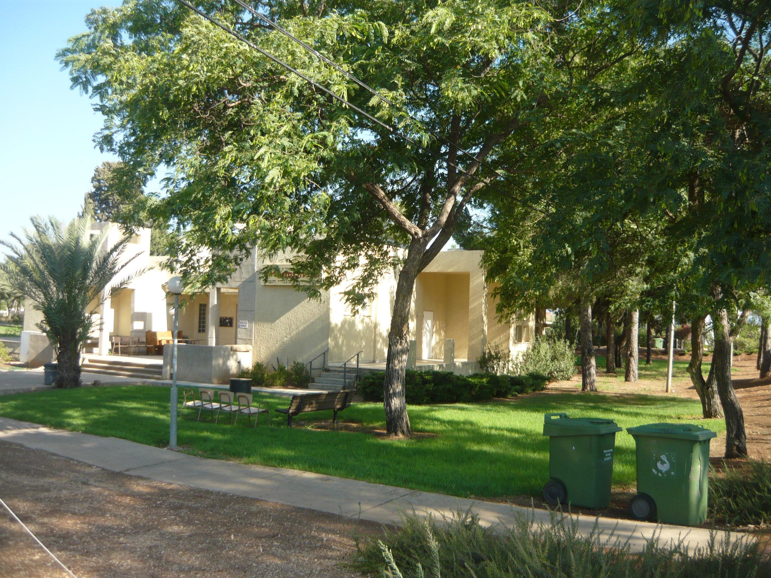 Gadish בית הכנסת במושב גדיש